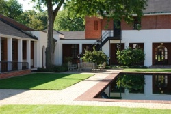 Cloister and reflecting pool at The Avery Coonley School.